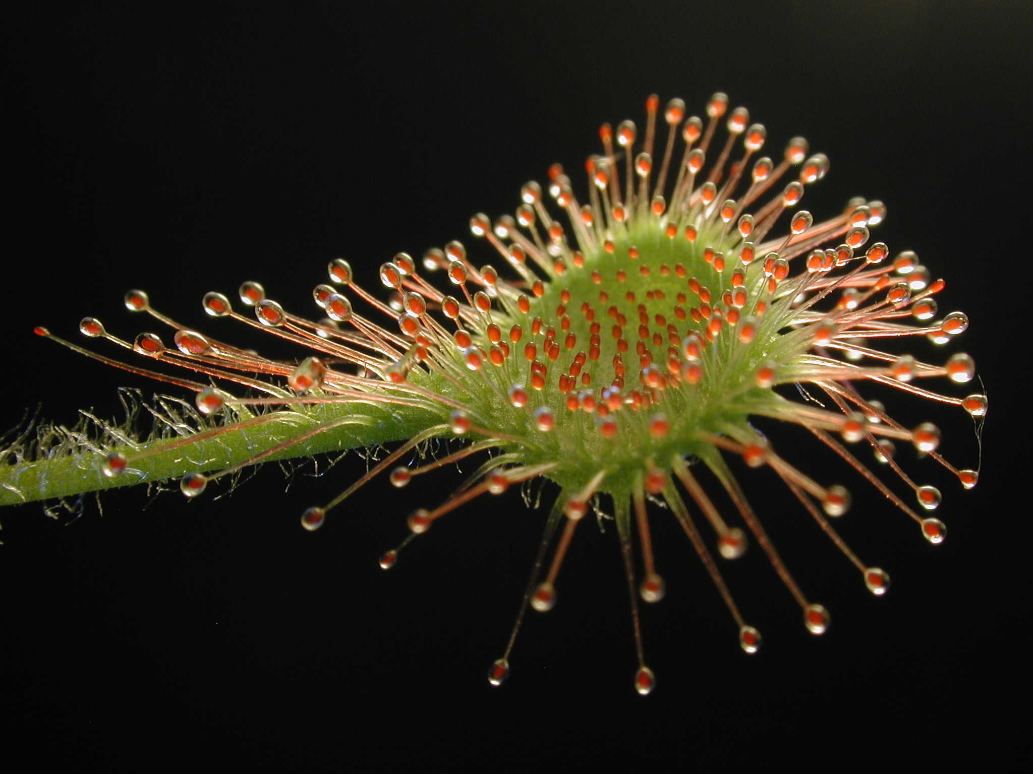 Leaf of Drosera rotundifolia growing in culture